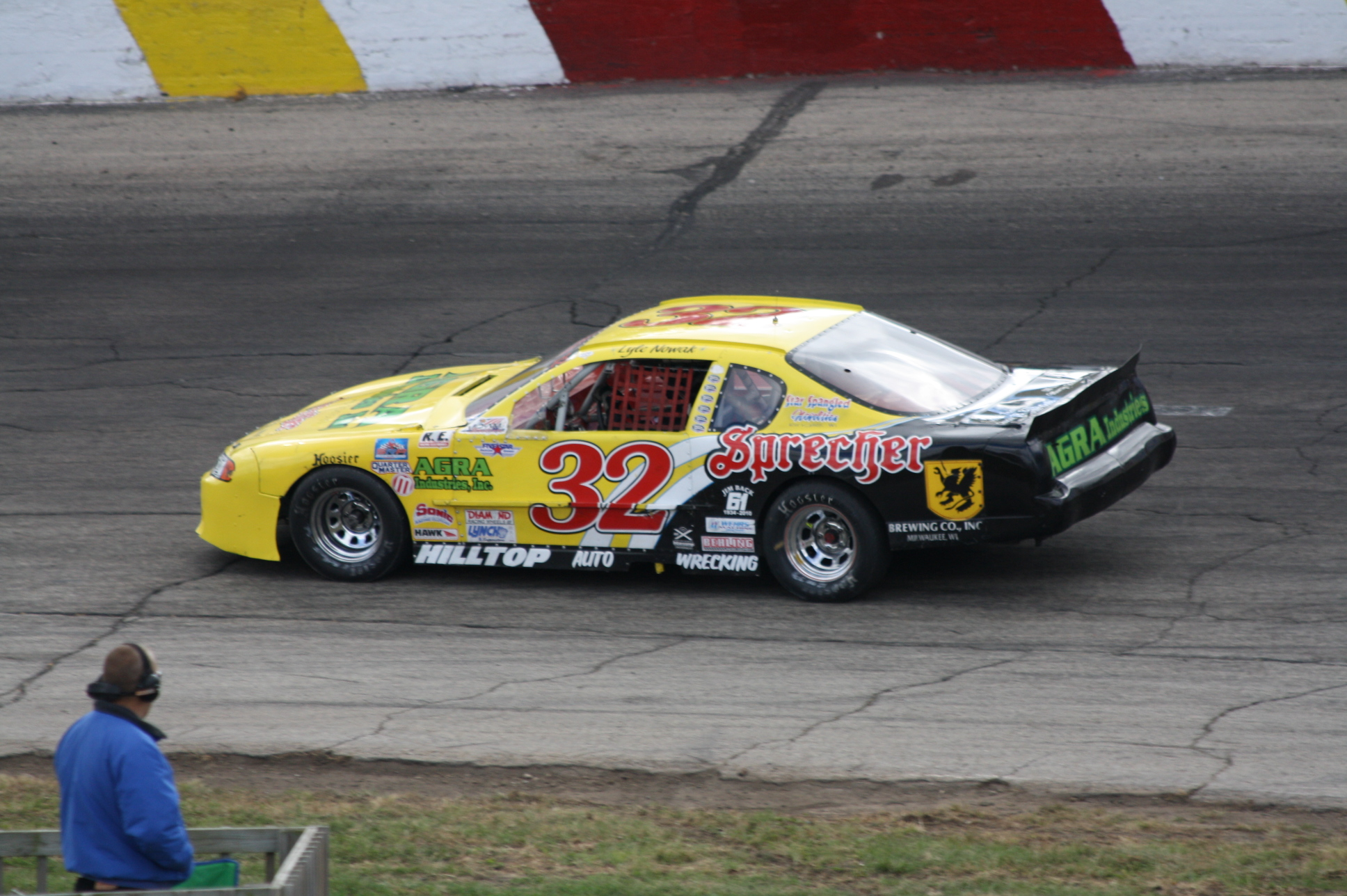 The Mid-American Stock Car Series race car of 2010 series champion Kyle Nowak at Rockford Speedway.